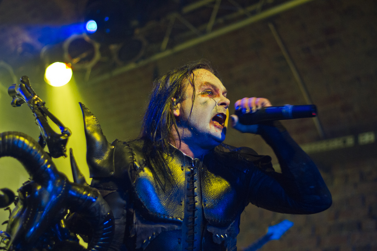 Dani Filth of Cradle Of Filth 2014 at the Matrix Bochum